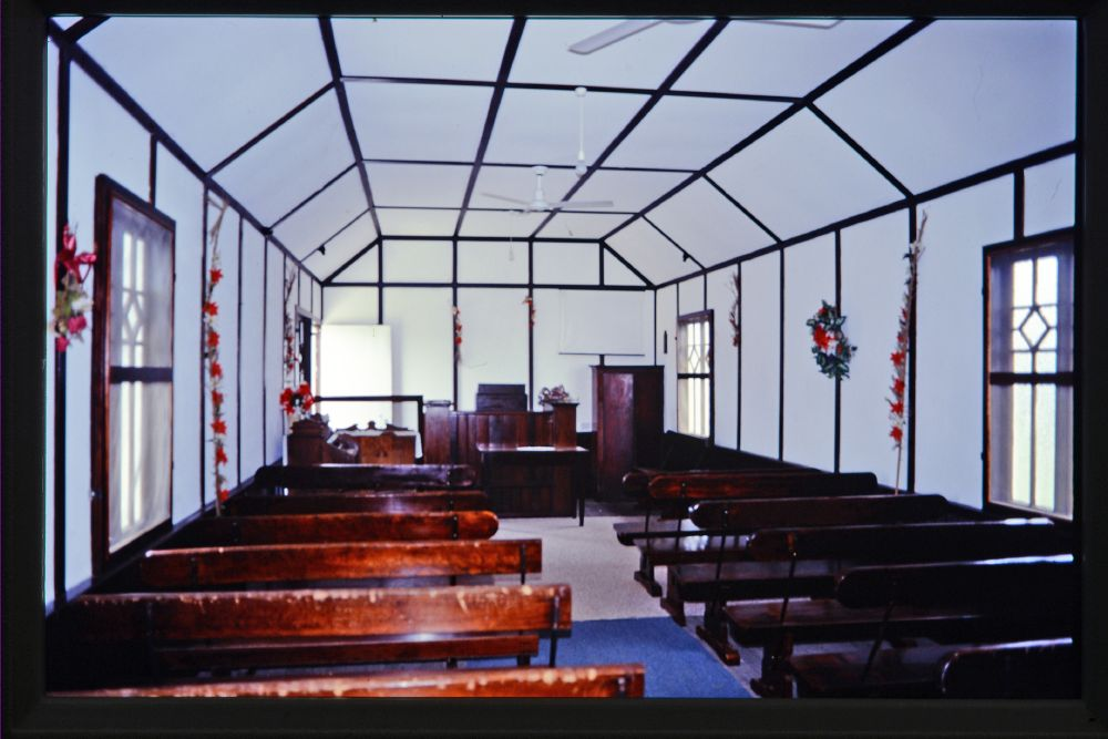 South Sea Islander Church and Hall (2000) - interior view of the church